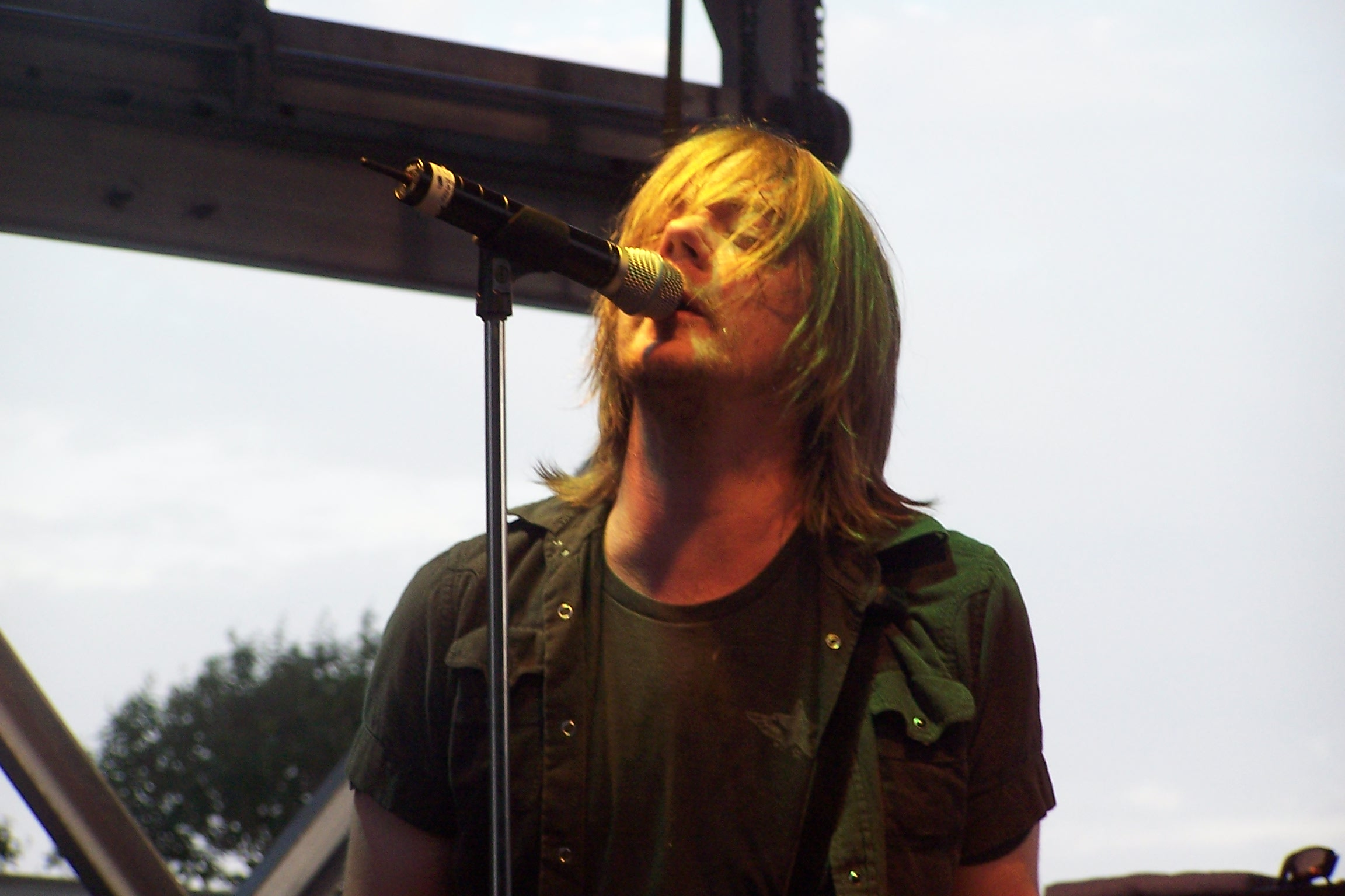 Dave Pirner of Soul Asylum.